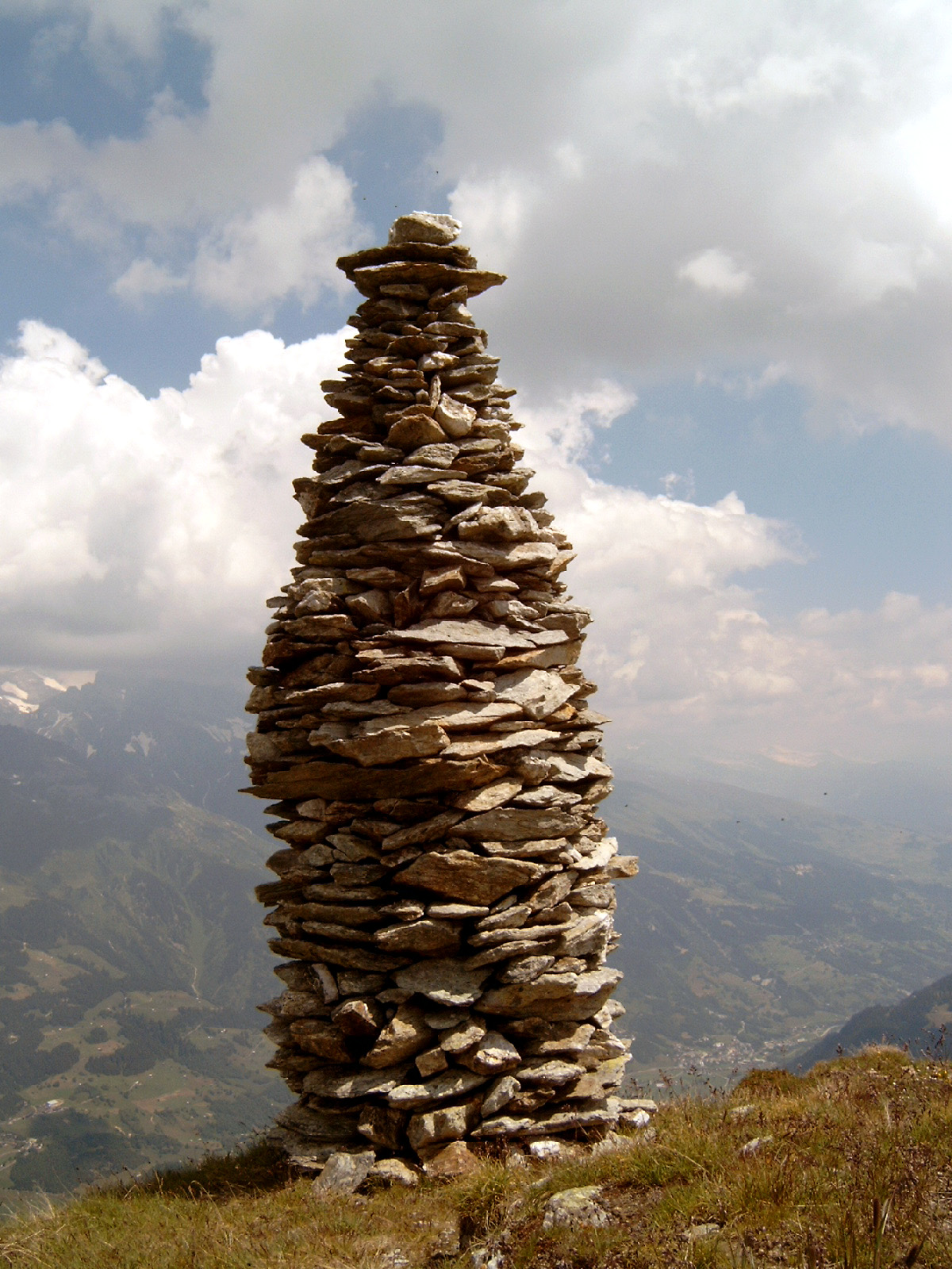 Cairn at Garvera, Surselva, Graubünden, Switzerland.